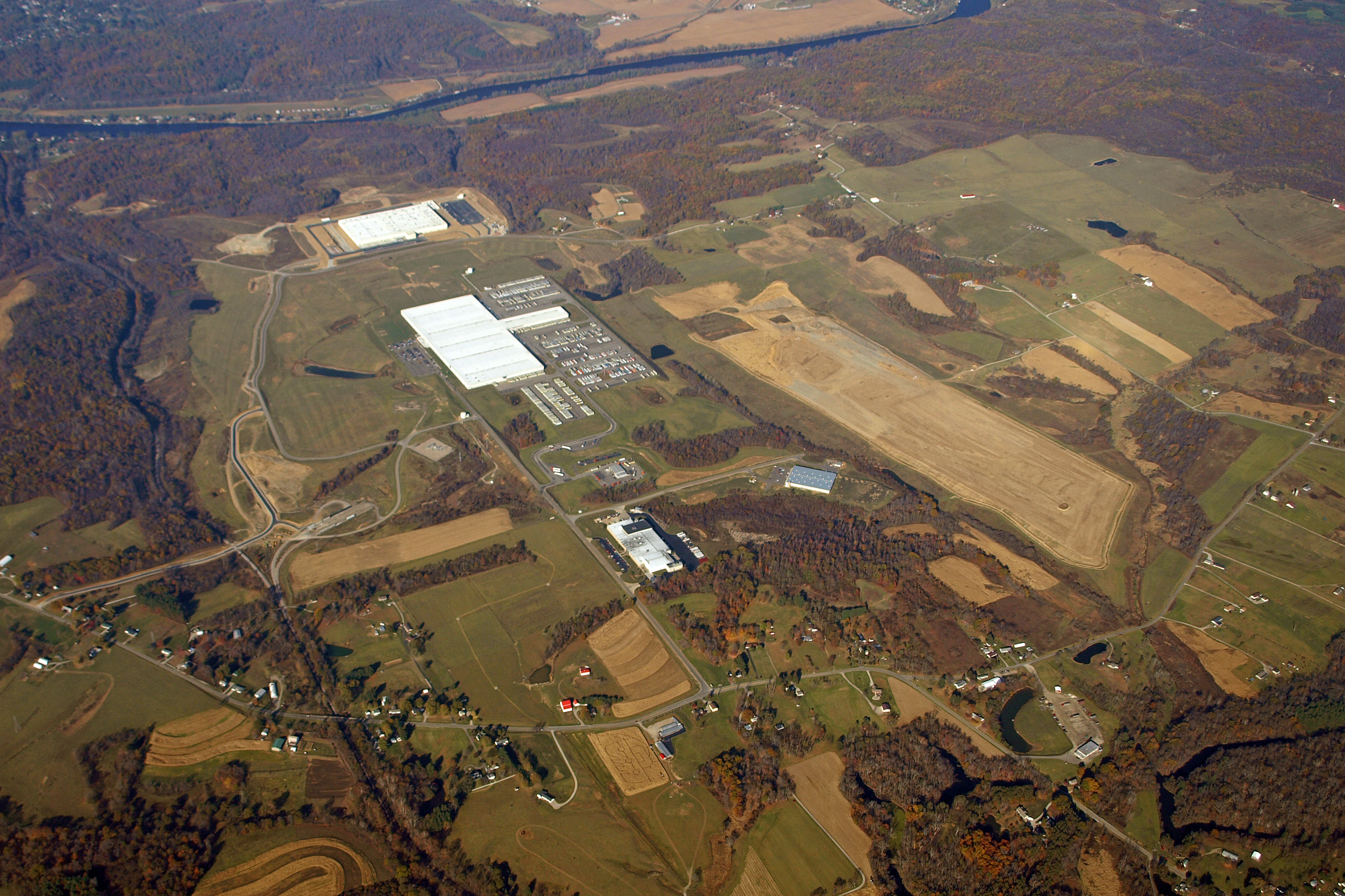 Aerial view, looking generally westward, of land northeast of Zanesville in central Washington Township, Muskingum County, Ohio, United States.